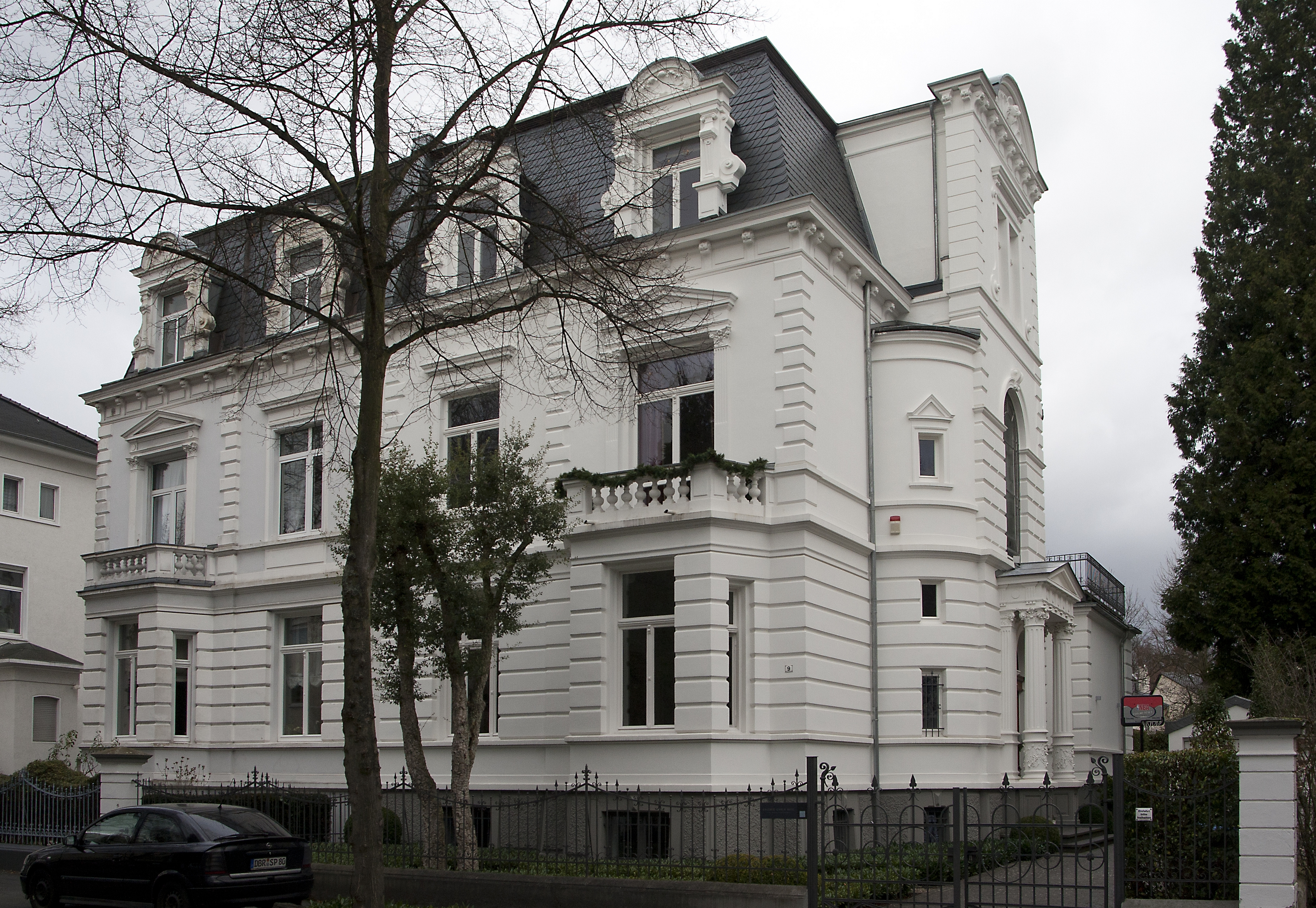 duplex house Dürenstrasse 7/9, Bonn-Bad Godesberg, in the foreground no 9